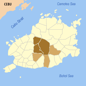 The Chocolate Hills of Bohol province in the Philippines. Dark brown indicates the greatest concentration of the Chocolate Hills in the Bohol municipalities of Sagbayan, Batuan, and Carmen. Light brown indicates a lesser concentration of the hills in Bilar, Sierra Bullones, and Valencia.